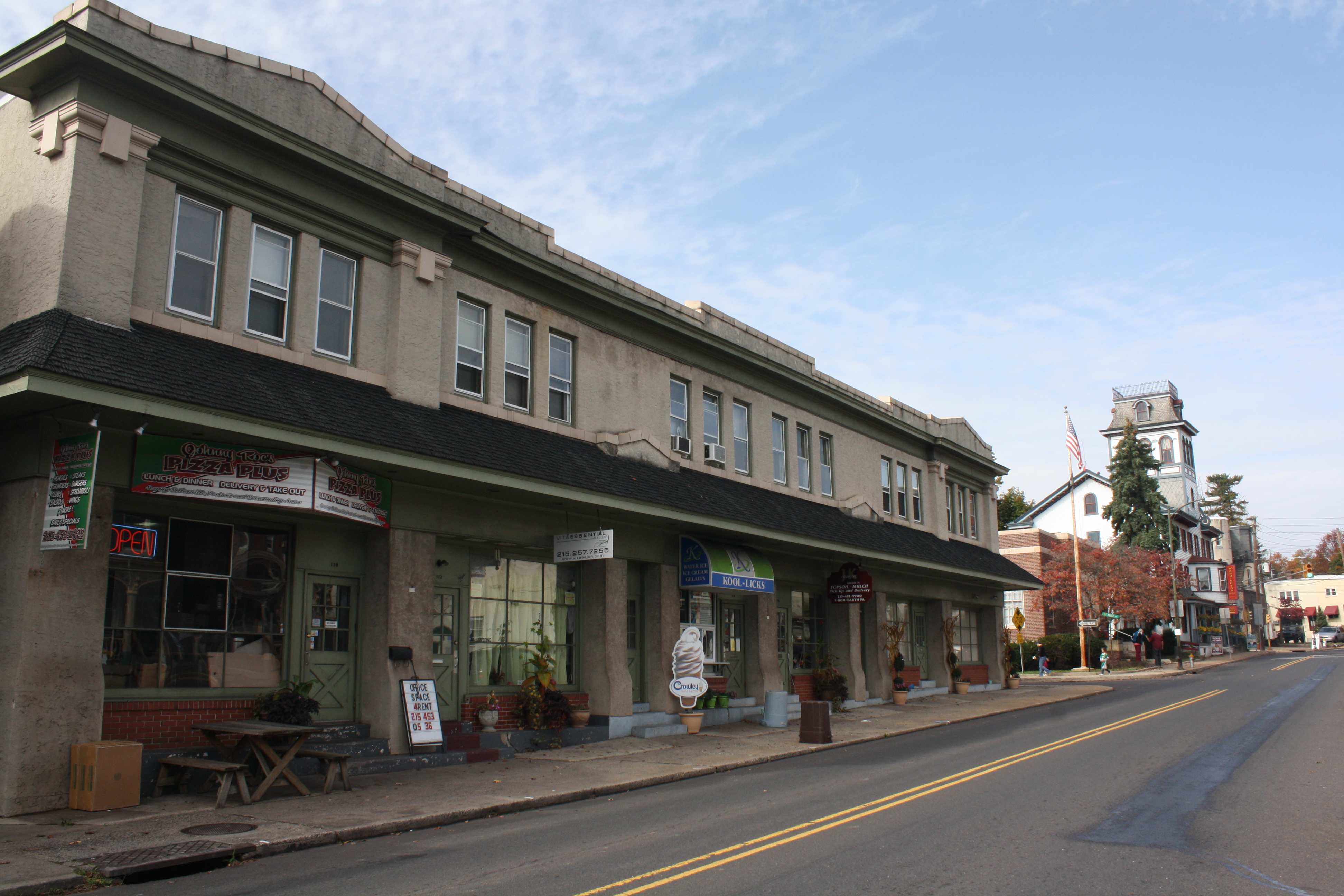 Sellersville, Bucks County, Pennsylvania. View on N. Main St. (Bethlehem Pike, also called Old Route 309). Washington House is visible on far end.